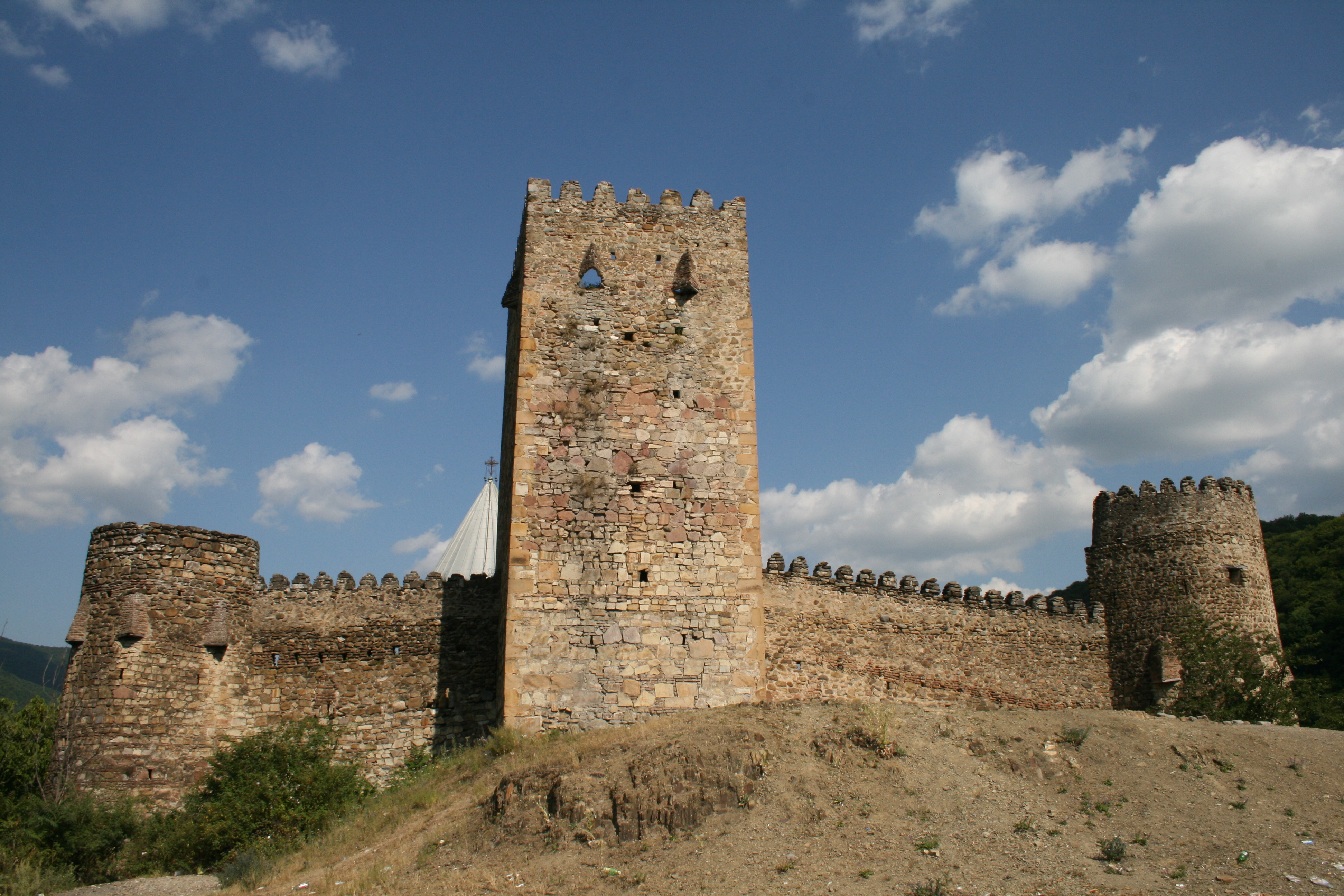 Ananuri castle in Georgia. Defense walls